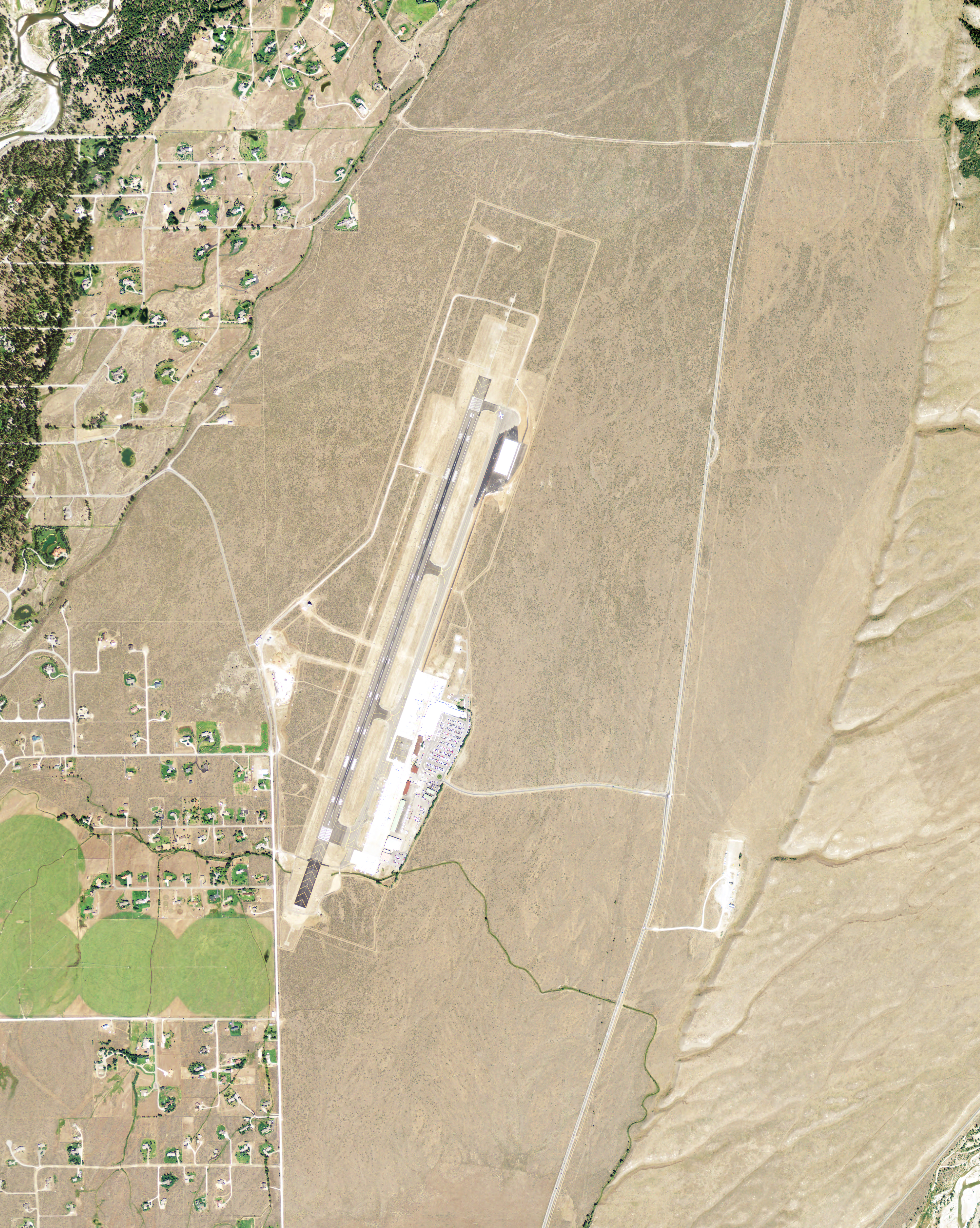 2012 National Agriculture Inventory Program aerial photo of Jackson Hole Airport (KJAC).